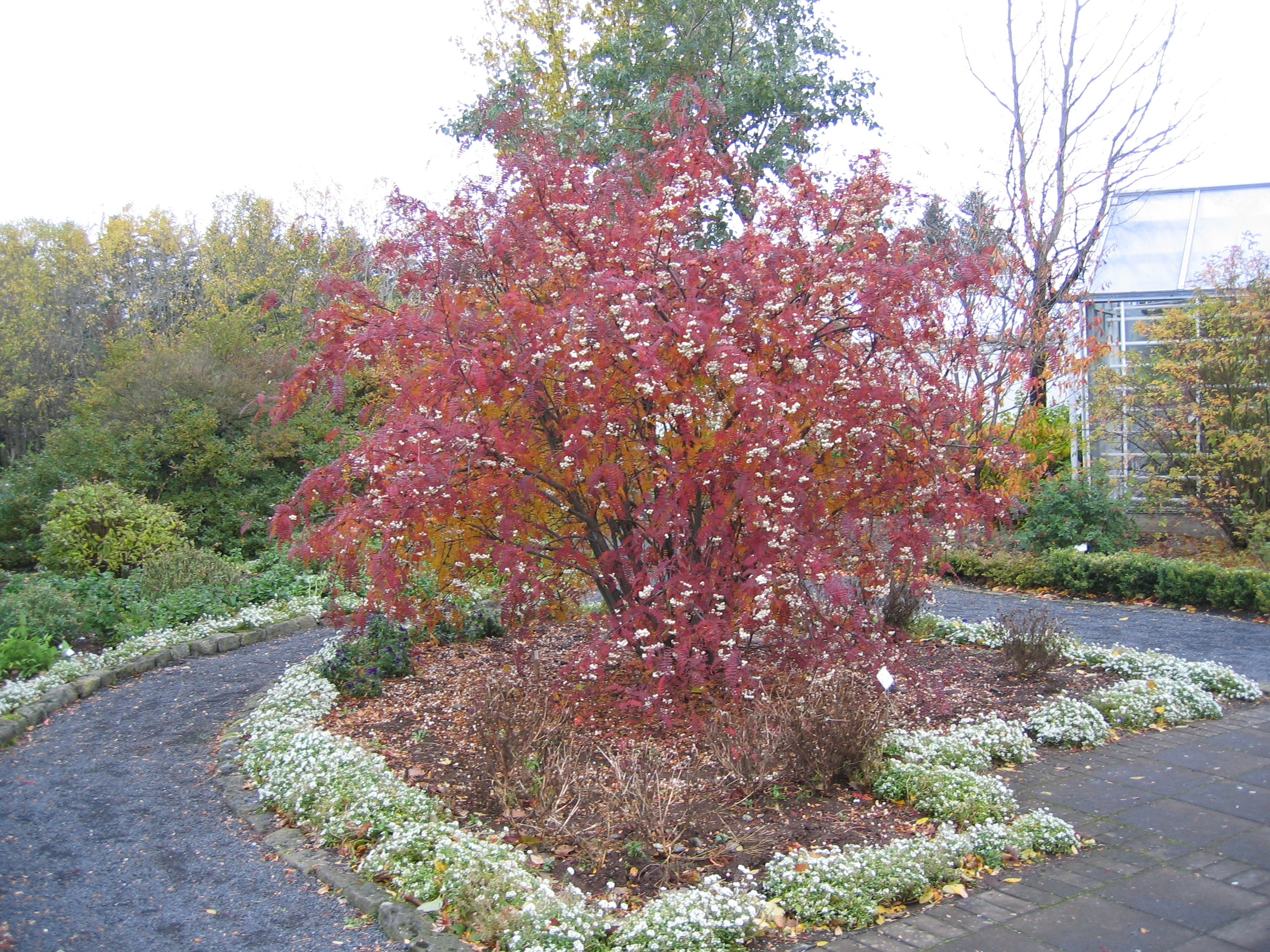 Sorbus fruticosa (Tíbetreynir) with berries. Picture taken in October in the Botanical Garden of Reykjavik, Iceland